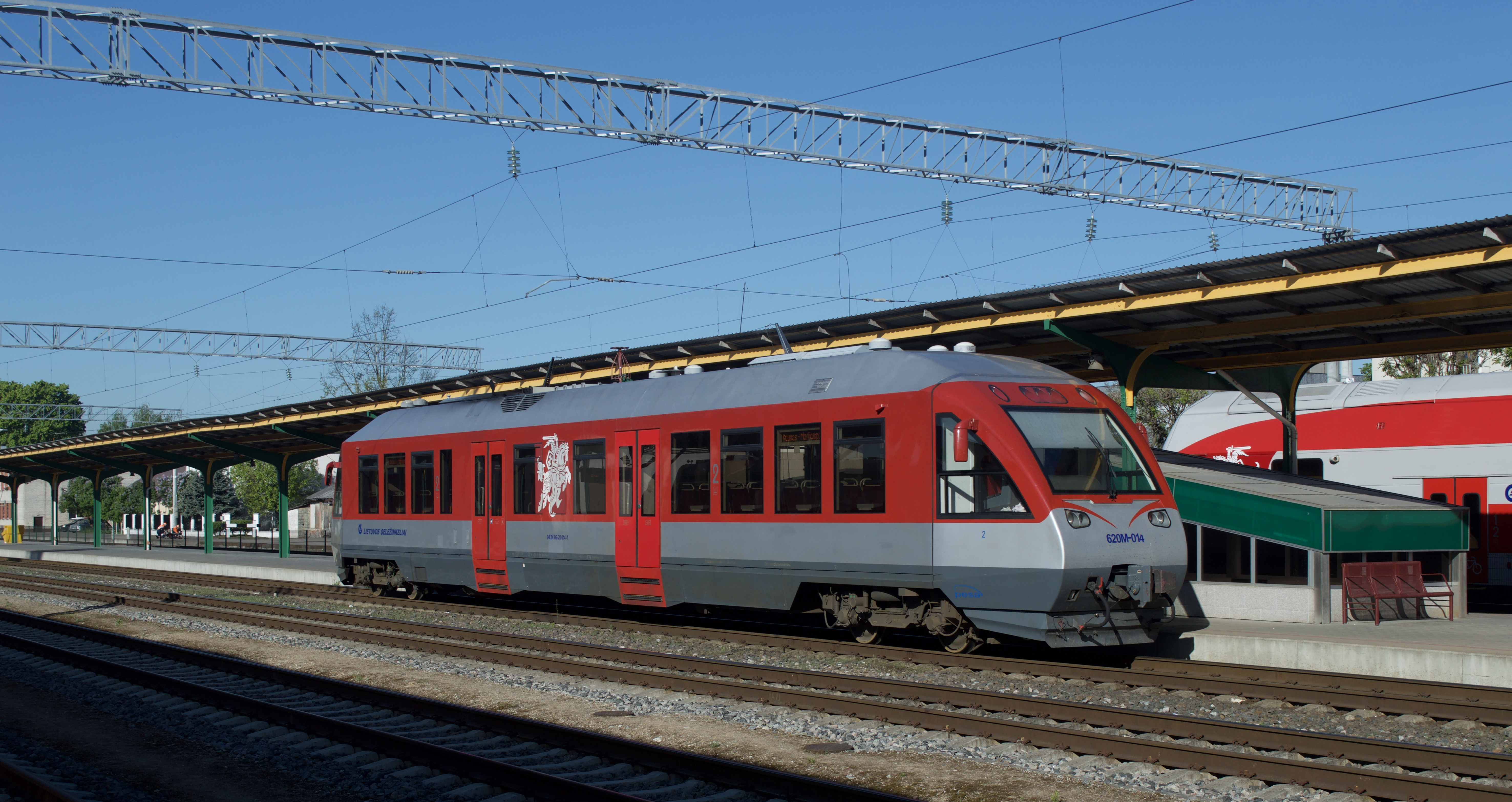 Another view of single raiilcar 620M-014, this time at Kaunas on 7 May 2018 prior to working train 979, 09:39 Kaunas to Marijampole.